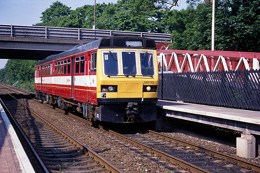 Class 141 Pacer 141 113 at Pontefract Tanshelf in 1996 consisting of vehices 55513+55533 in West Yorkshire Metro-Train livery. Scanned from a Fujichrome 35mm slide.